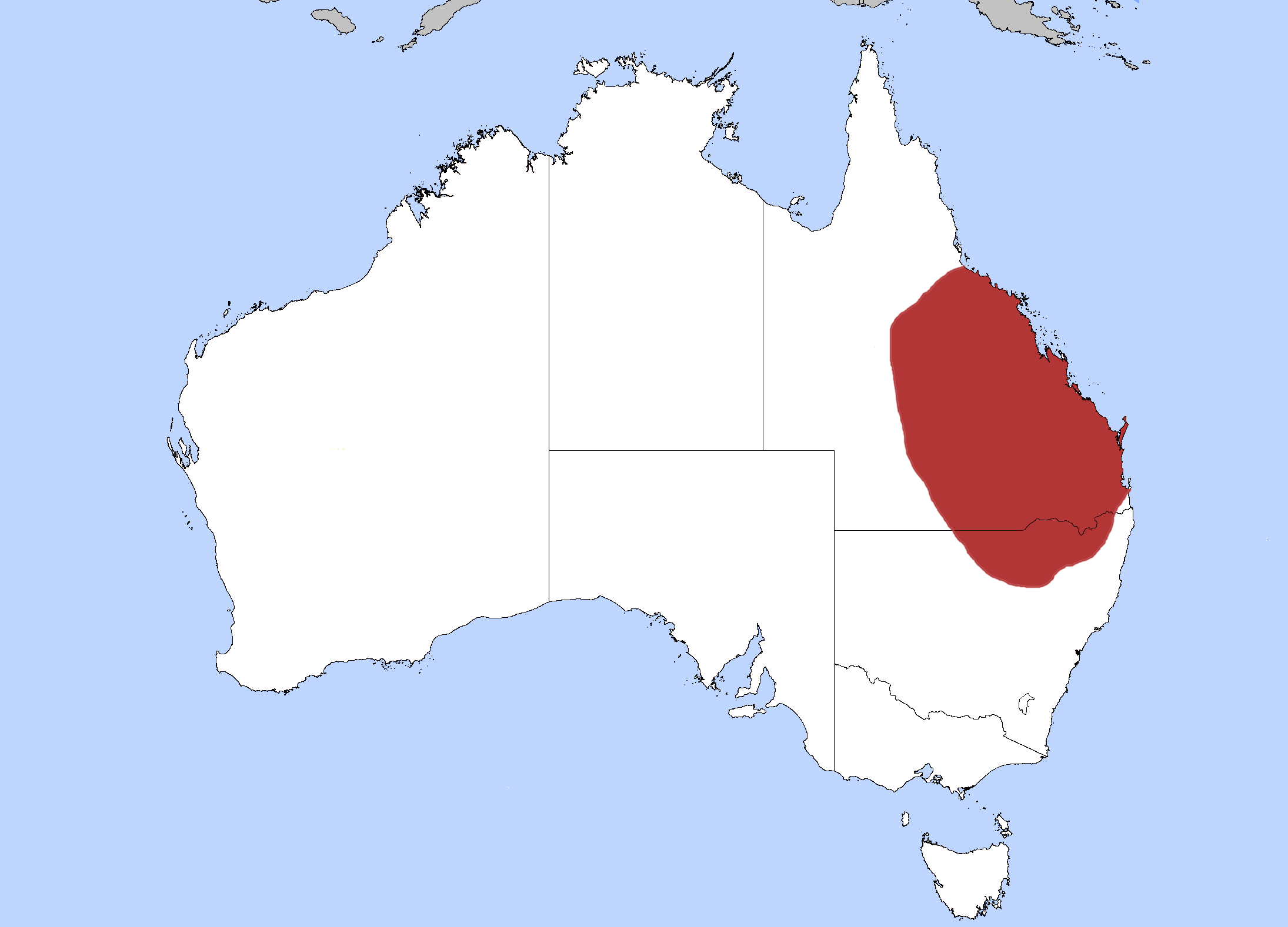 The Short-Footed Frog's Distribution.